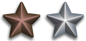 The silver and bronze service stars, an attachment to a United States military decoration. Service stars are typically issued for campaign medals, service medals, ribbon awards, and certain military badges.